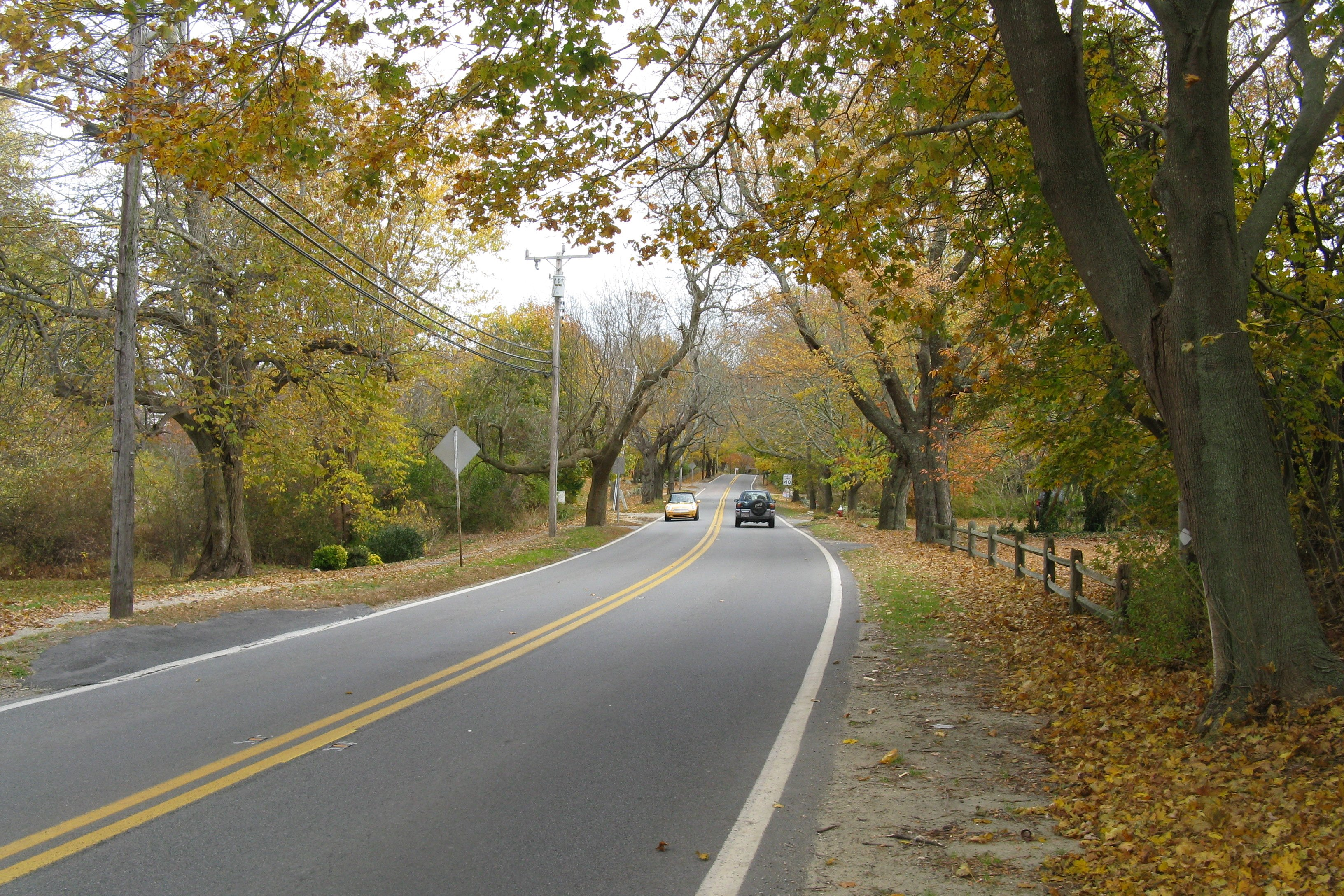 Main Street, Cummaquid Massachusetts